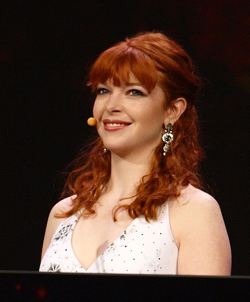 Erin Robinson during the Independent Games Festival Awards as part of the Game Developers Conference 2010.